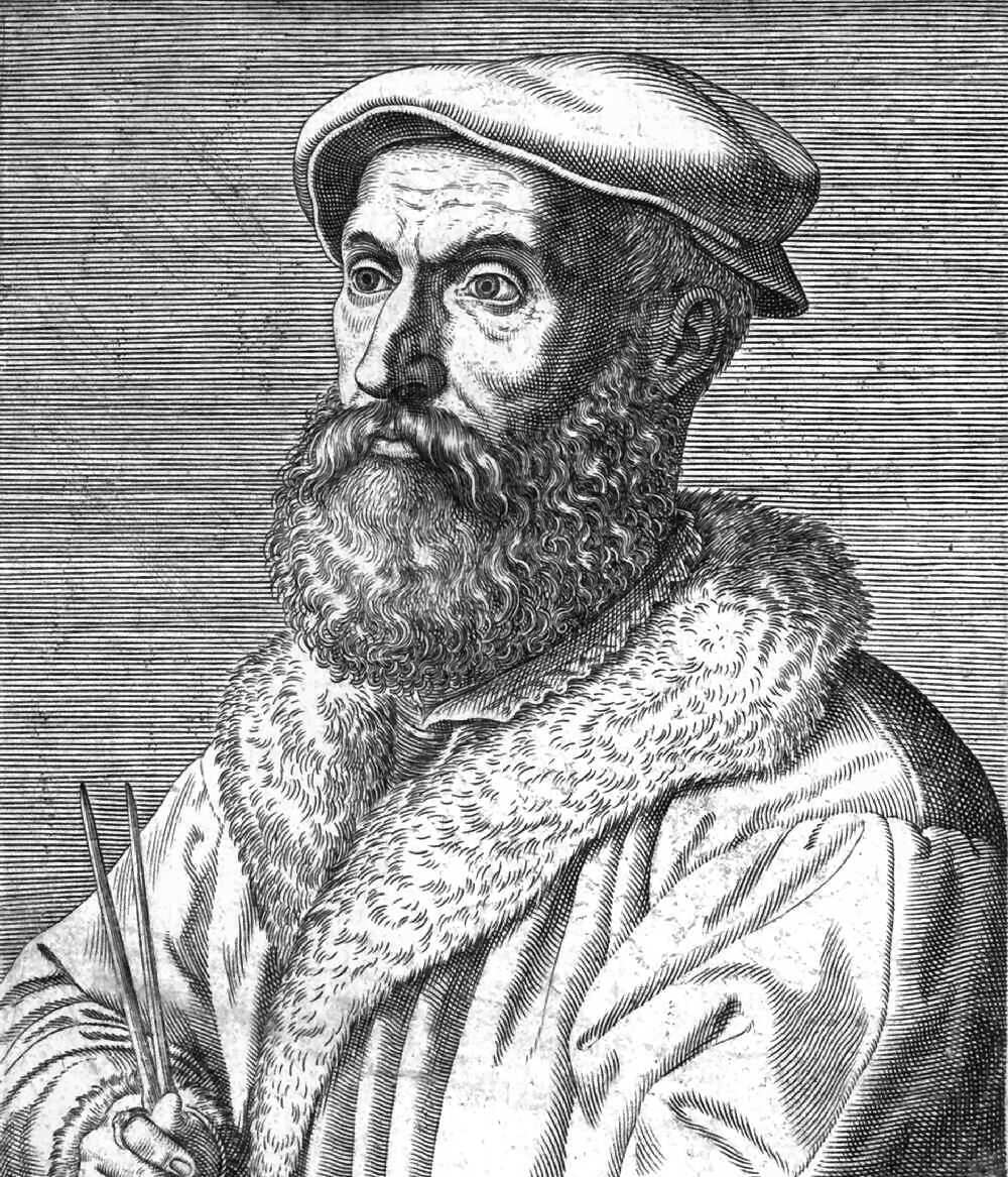 from According to : Access to and use of digital image files, text, and data used on this web site are subject to the following terms and conditions. By using these materials, the user is deemed to have consented to the terms and conditions set forth below. For Smithsonian policy on this topic The digital image files and associated text on this web site are the property of the Smithsonian Institution or of other institutions or individuals. The Smithsonian images are made available for non-commercial educational or personal use only. And according to : CONTENT IS PROTECTED BY INTELLECTUAL PROPERTY LAWS Text and image files, audio and video clips, and other content on this website is the property of the Smithsonian Institution and may be protected by copyright and other restrictions as well. Copyrights and other proprietary rights in the content on this website may also be owned by individuals and entities other than, and in addition to, the Smithsonian Institution. Smithsonian expressly prohibits the copying of any protected materials on this website, except for the purposes of fair use as defined in the copyright law, and as described below. Why PD? Slika:Niccolo Fontana Tartaglia.jpg